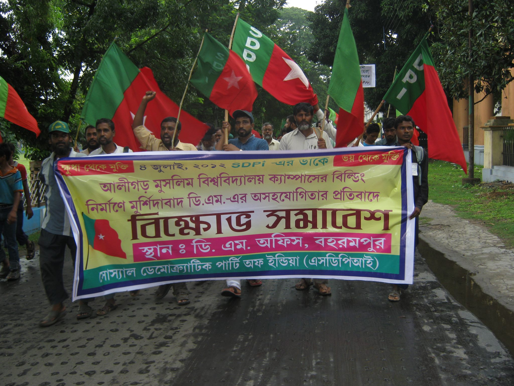 SDPI Protest in West Bengal